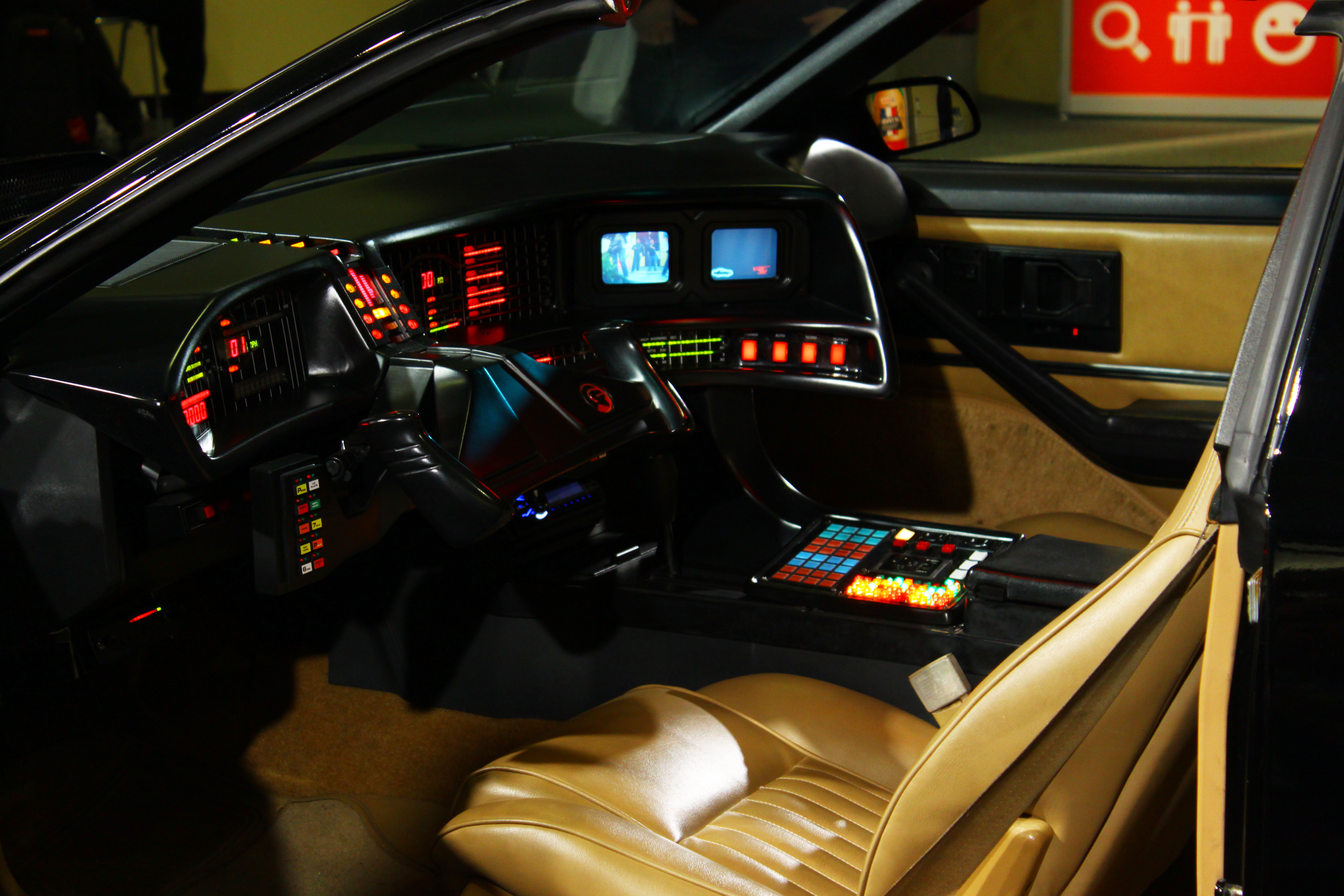 Not the actual KITT, just a well made replica.